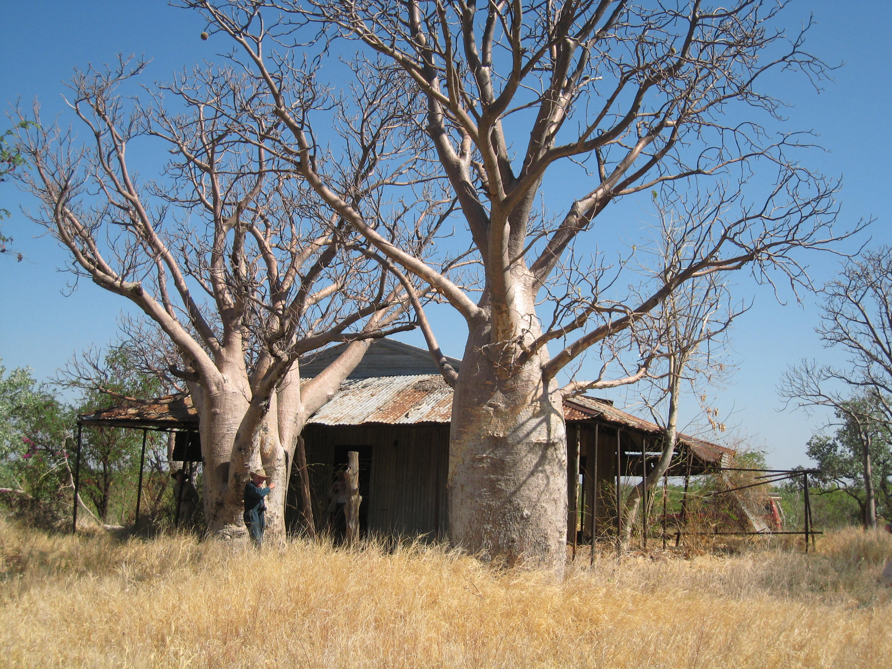 Old Bradshaw homestead. The third homestead to be built by Bradshaw (in 1905). The earlier ones were built in 1894 and 1896 and not at the same site. The uprights supporting the roof and making the frame of the building were the galvanised pipes which had remained unused after piping the water to the homestead from the permanent springs in the range.